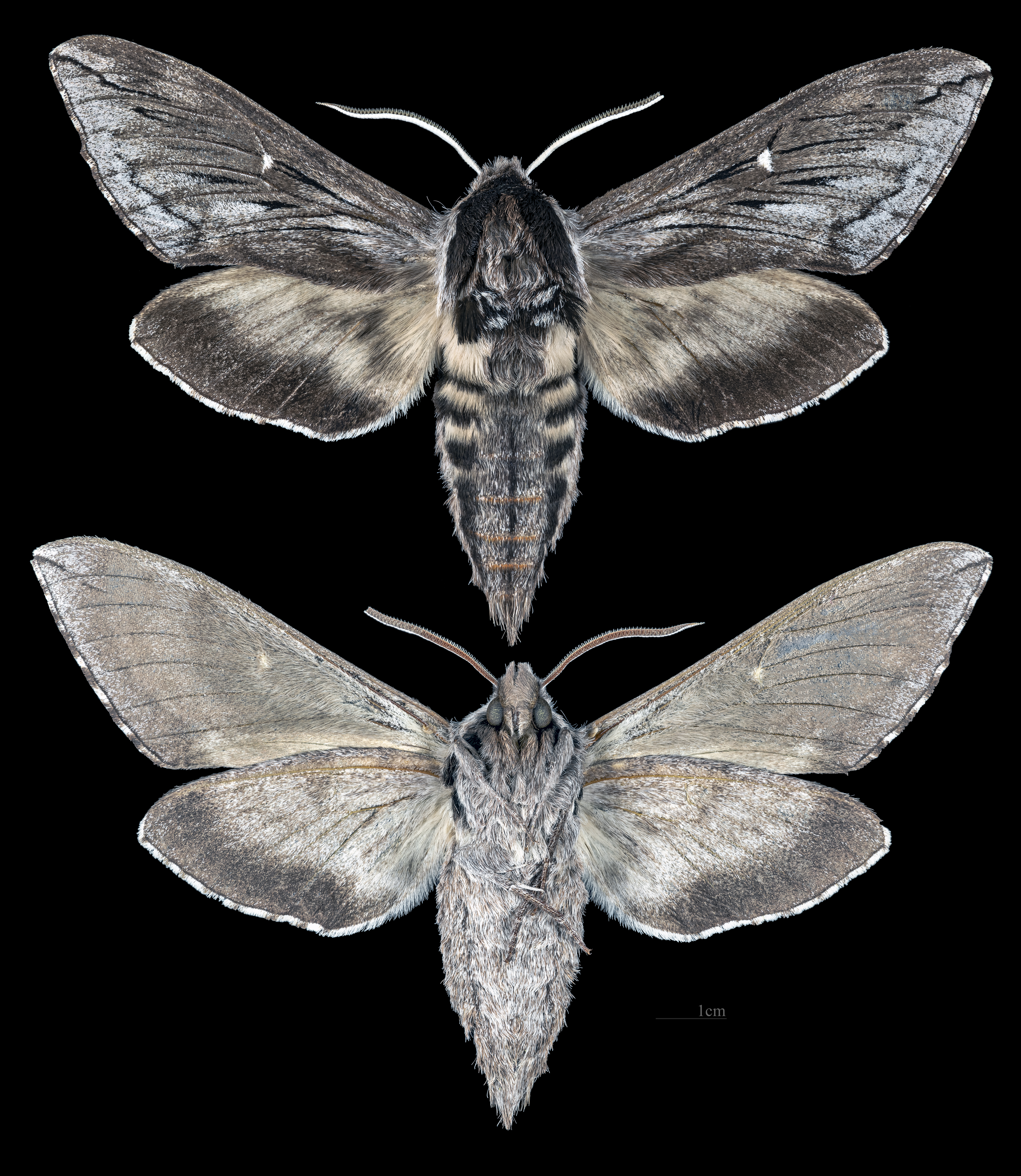 Sphinx gordius - Two views of same specimen Collection of the Mathematician Laurent Schwartz